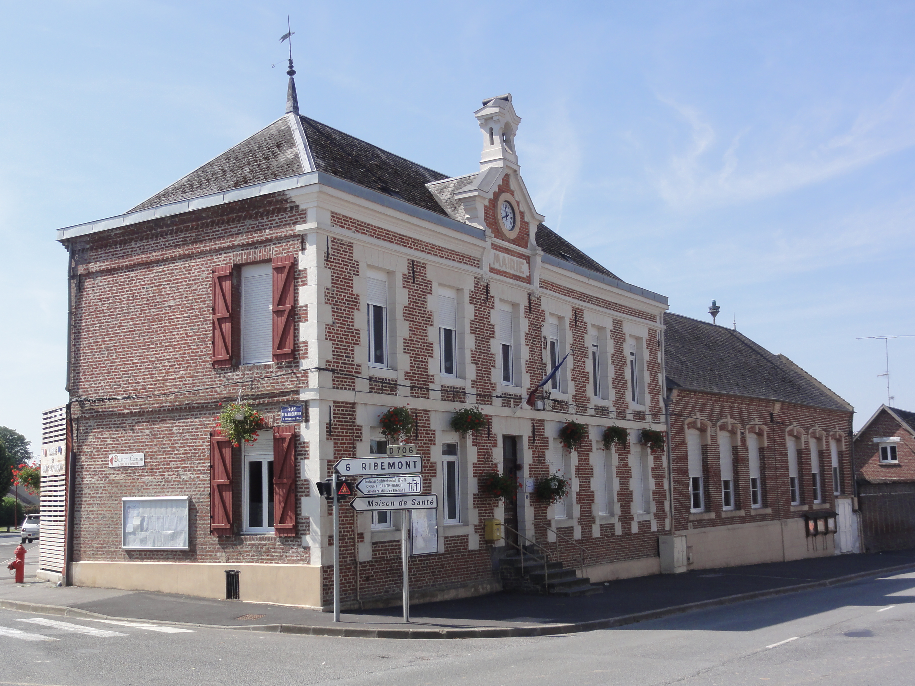 Mont-d'Origny (Aisne) mairie